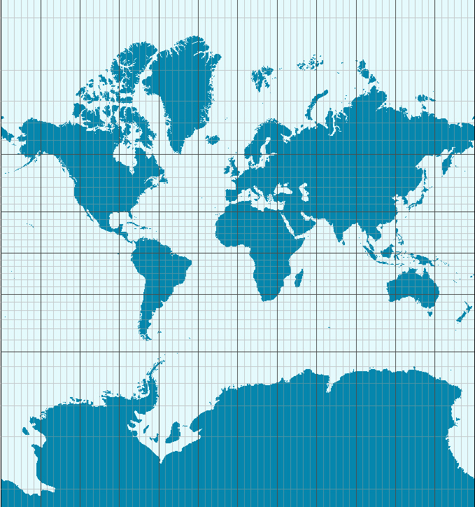 World map in Mercator style projection.